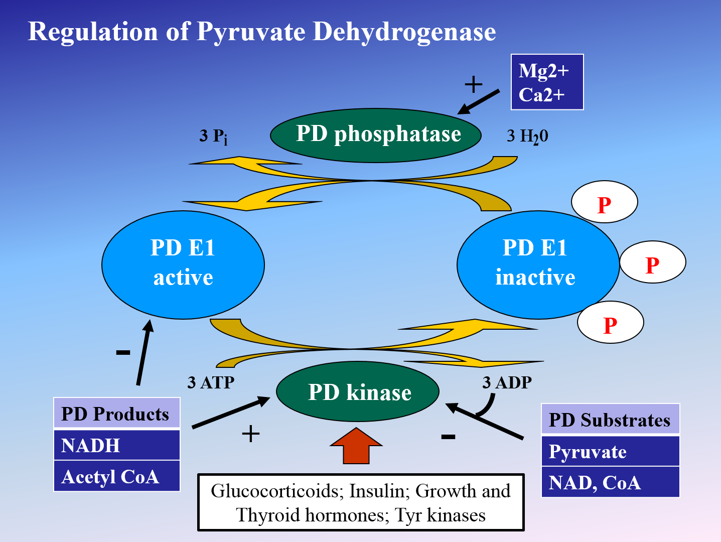 Diagram showing regulation of the enzyme pyruvate dehydrogenase (PD) by PD kinase and PD phosphatase. This includes regulation by the substrates and products of PD and by ATP and ADP and by Mg2+ and Ca2+ ions.